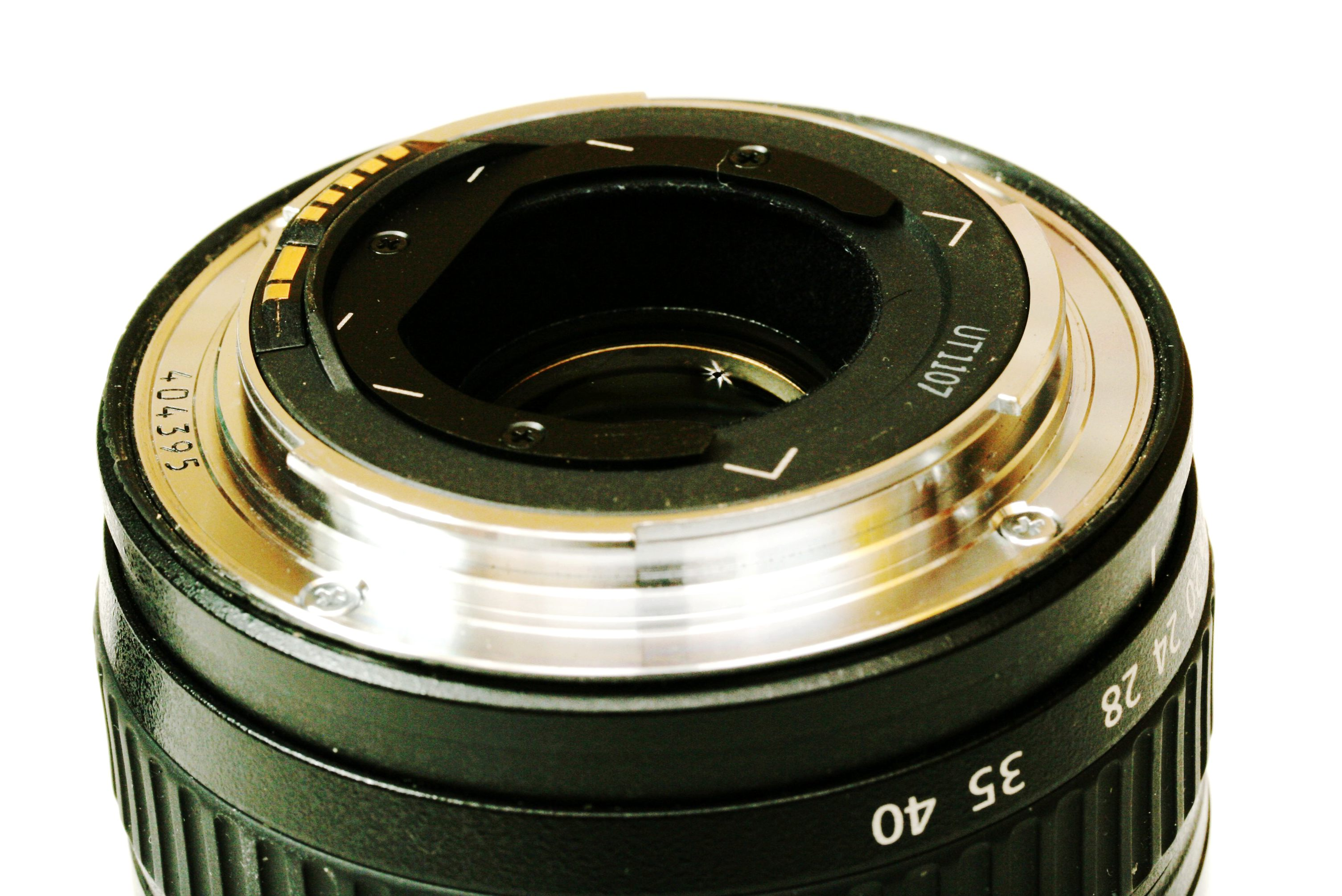 EF mount of Canon EF 17-40 f/4L, with gel filter holder